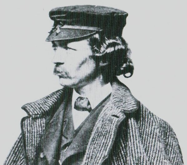 Photograph of Frederick Law Olmsted, National Park Service, Frederick Law Olmsted National Historic Site